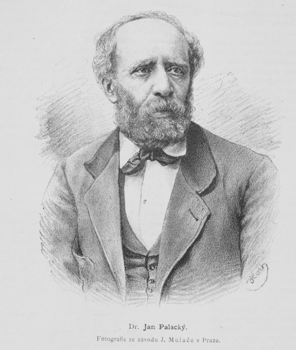 Photograph of Jan (Křtitel Kašpar) Palacký, Czech professor of geography.